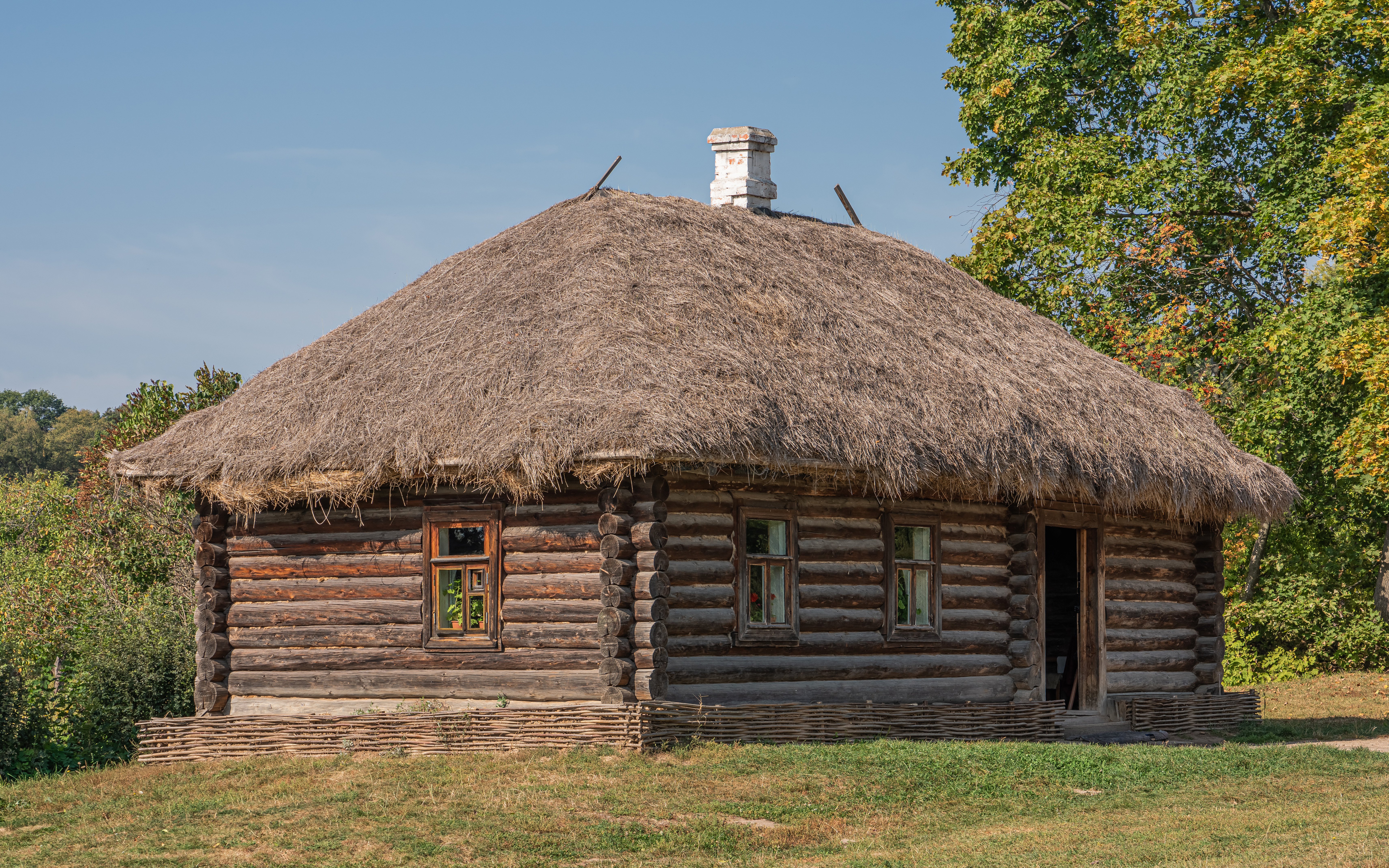 Coachman's hut in Yasnaya Polyana estate near Tula, Russia